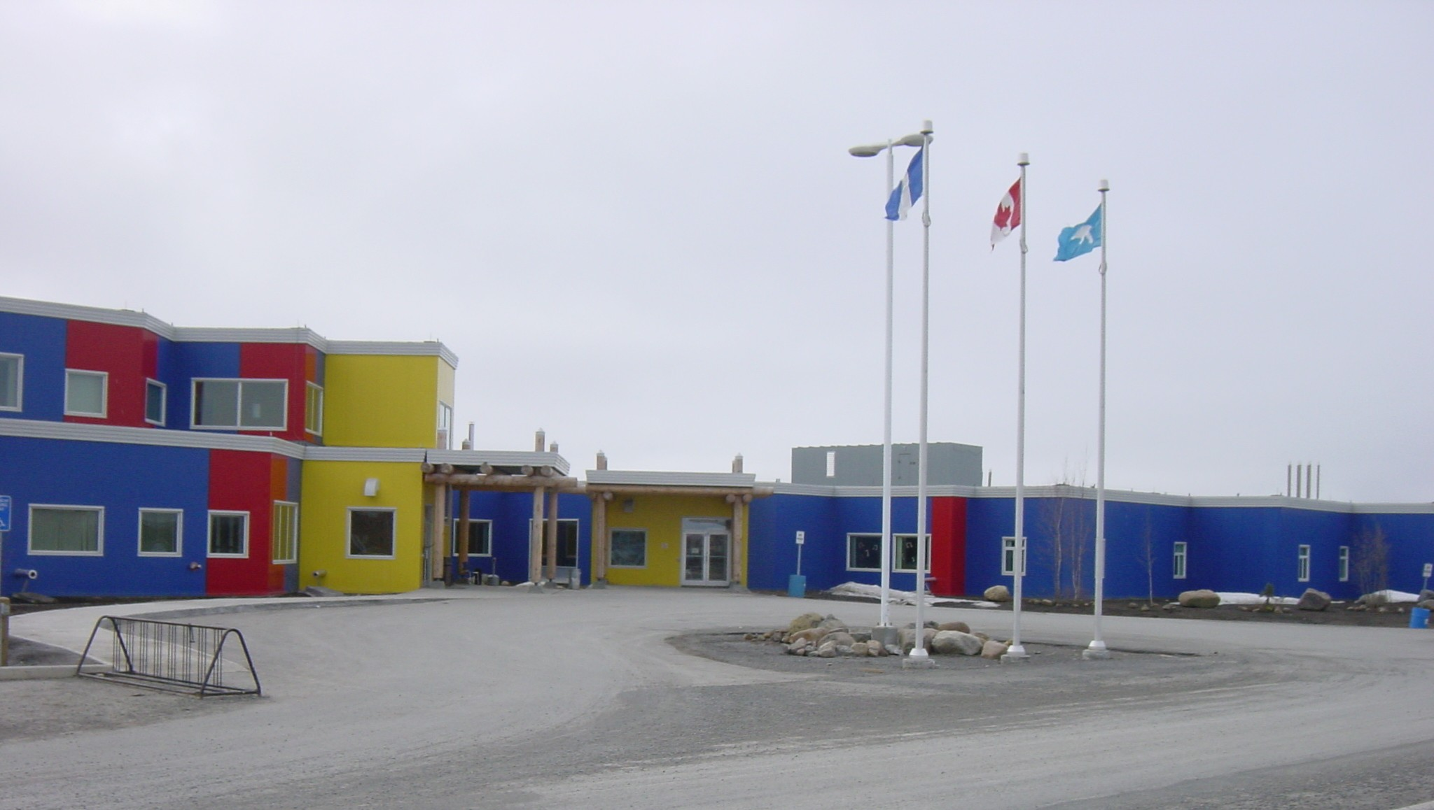 Inuvik Regional Hospital Inuvik est une ville des Territoires du Nord-Ouest au Canada